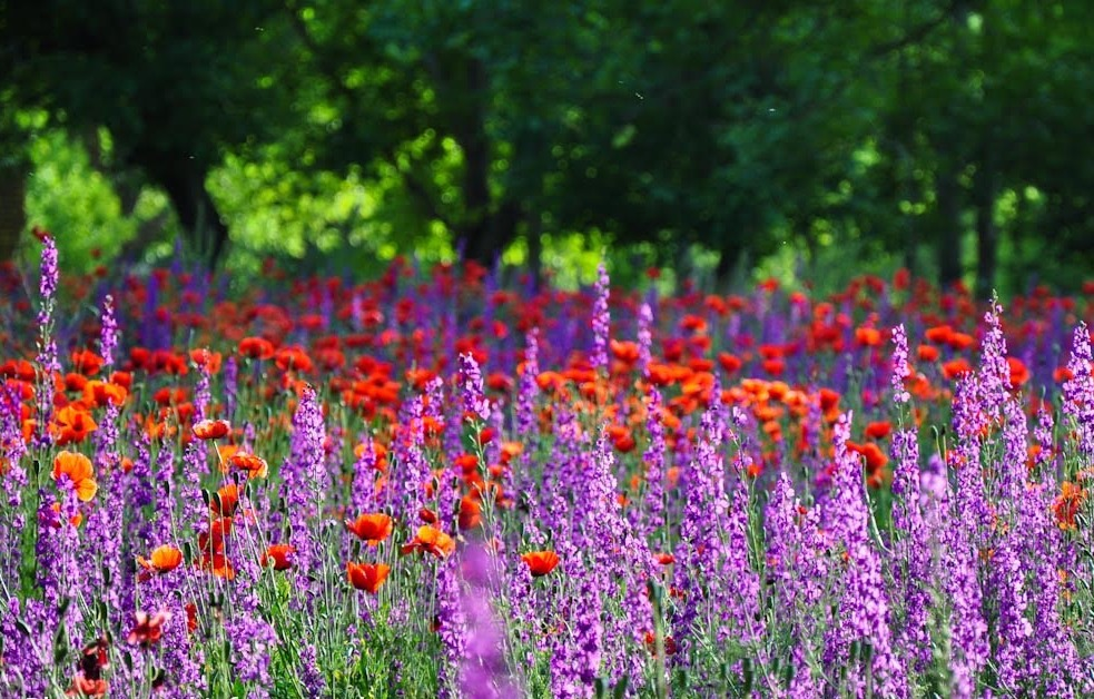 Gardens aroun Senejan, a part of Arak city.